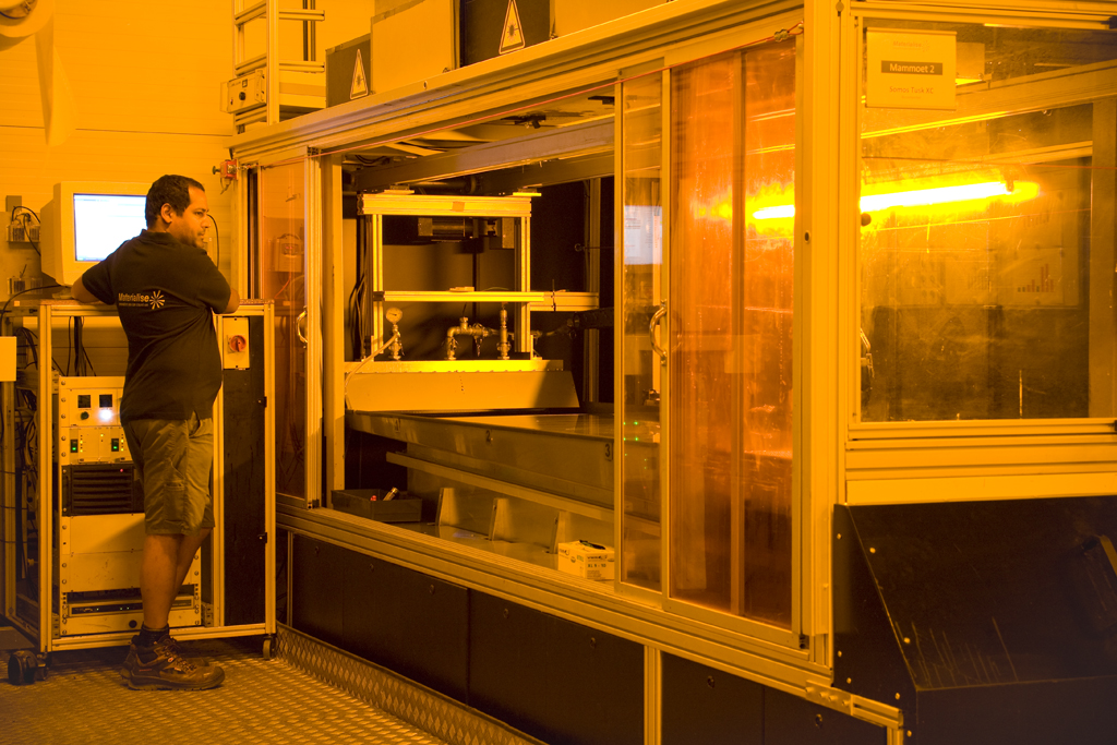 Materialise's Patented Mammoth Stereolithography Technology.